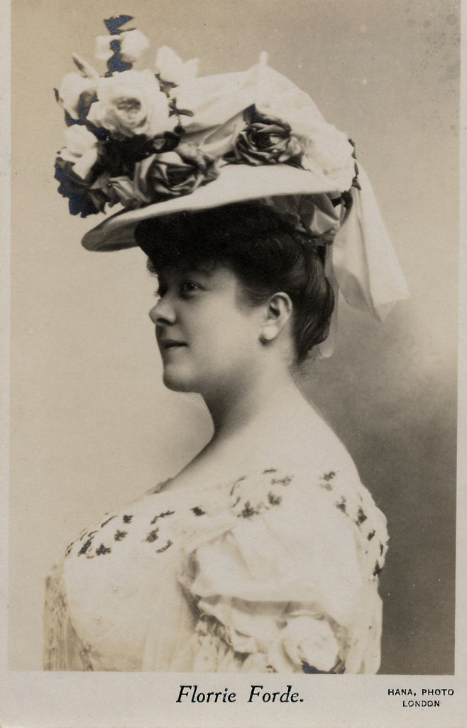 Florrie Ford by George Henry Hana (1868-1938) [photographer] London. Guess at 1925